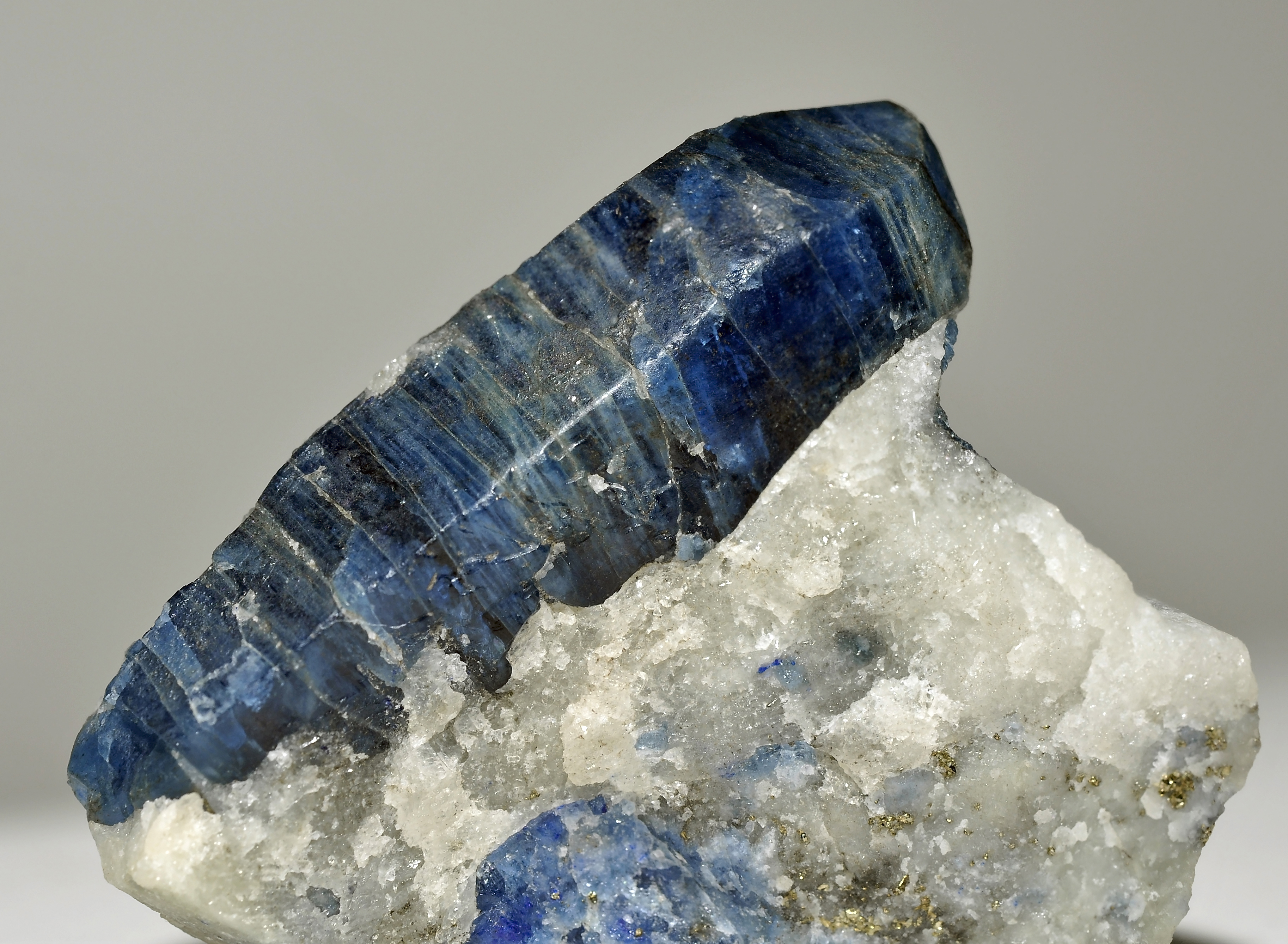 afghanite, pyrite, calcite : Sar-e-Sang (Sar Sang ; Sary Sang), Koksha Valley (Kokscha Valley ; Kokcha Valley), Khash & Kuran Wa Munjan Districts, Badakhshan Province (Badakshan Province ; Badahsan Province), Afghanistan - afghanite : 35 mm